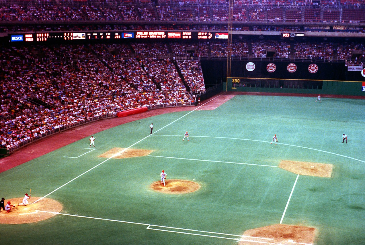 Mike Schmidt hits home run off of Cincinnati Reds pitcher Tom Hume in the 5th inning at Veterans Stadium on July 20, 1987.